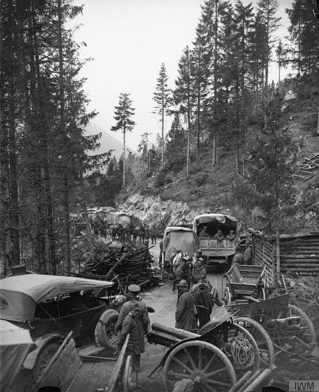 British and Italian convoys passing abandoned Austro-Hungarian artillery on the Val d'Assa mountain road. This pass was entered by the 143rd Infantry Brigade, 48th Division, at 10am, 2nd November.